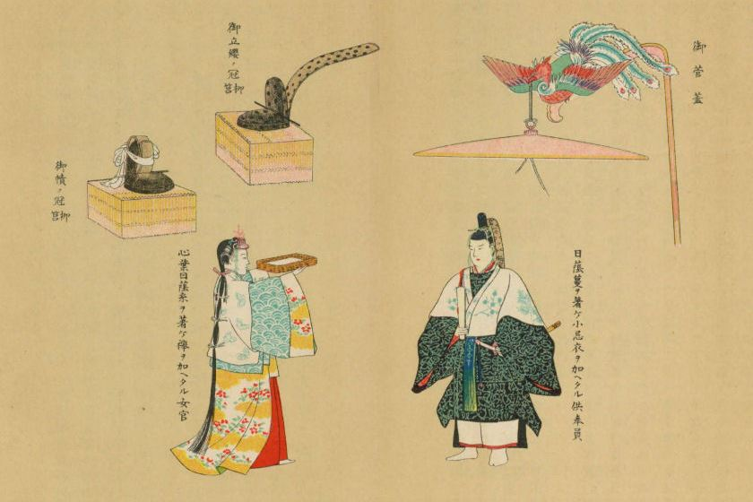 Daijosai costumes and items